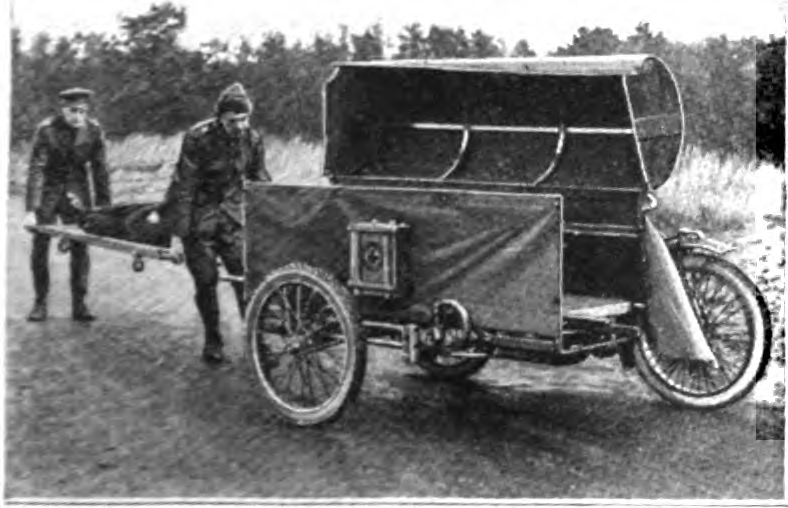 Caption: "A New Motorcycle Ambulance for Carrying Two Patients Fully Protected against Dust and Weather: At the Left it is Shown Open, Ready to Receive a Wounded Soldier; at the Right the Top is Down and the End Curtains are being Attached."